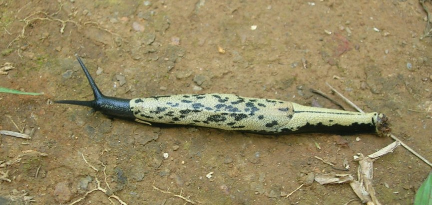 Slug (Possibly of the species Mariaella, identification suggested by N A Aravind, ATREE, Bangalore) Tadiandamol, Coorg, Western Ghats Photograph by L. Shyamal, 2006